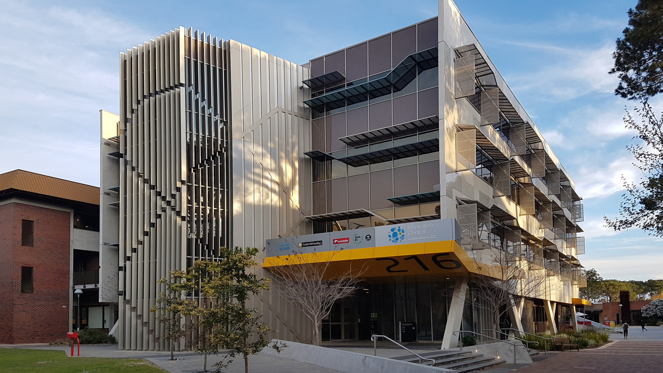 Curtin Innovation Building (Building 216) looking from the north-west.